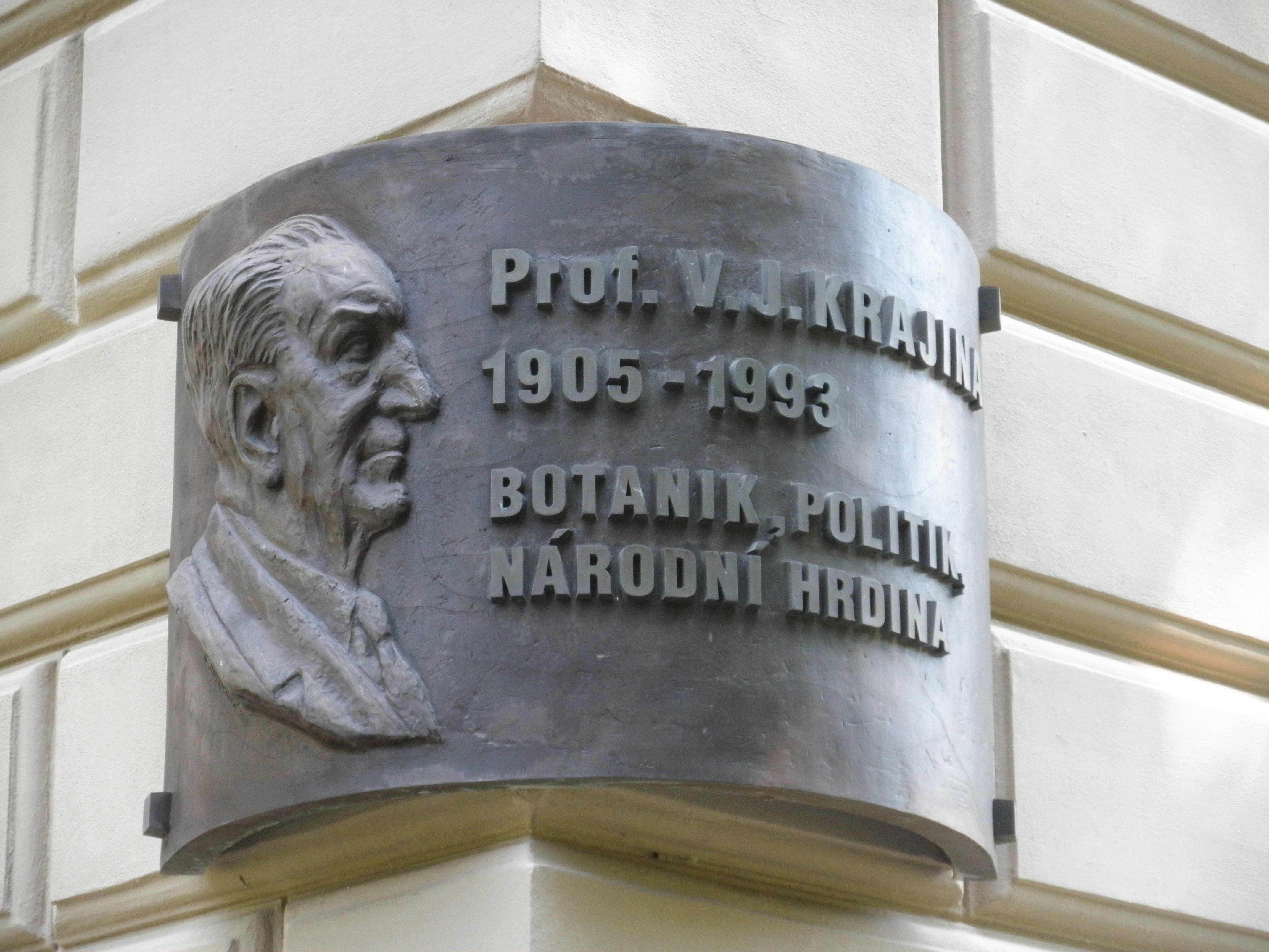 Memorial plaque of Vladimír Krajina in the Botanical Garden of Charles University. The plaque was made by Nina Jindřichová in 2002.